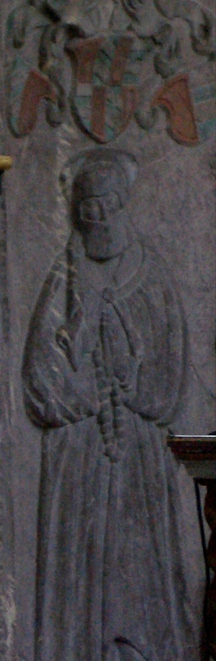 Rosina von Graben von Rain (died in the 16th century), daughter of Virgil von Graben, married to Haymeran von Rain zu Sommeregg; Rosina was Lady and Viscountess of Sommeregg